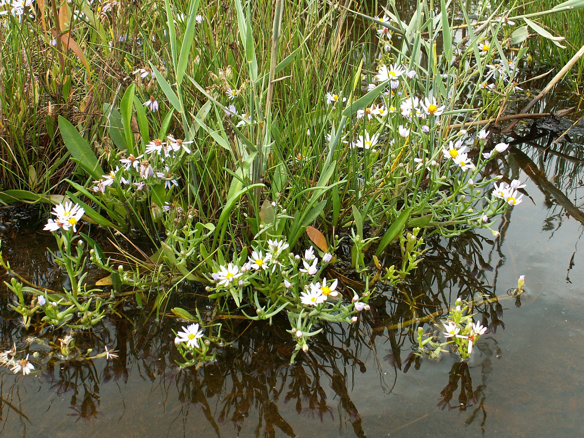 Aster tripolium on haline meadow. Rekowo, NW Poland